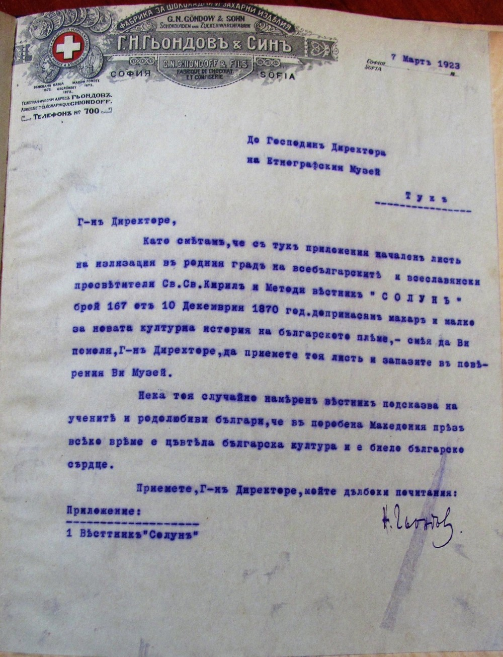 Donation Letter Guondov